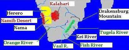 namibia